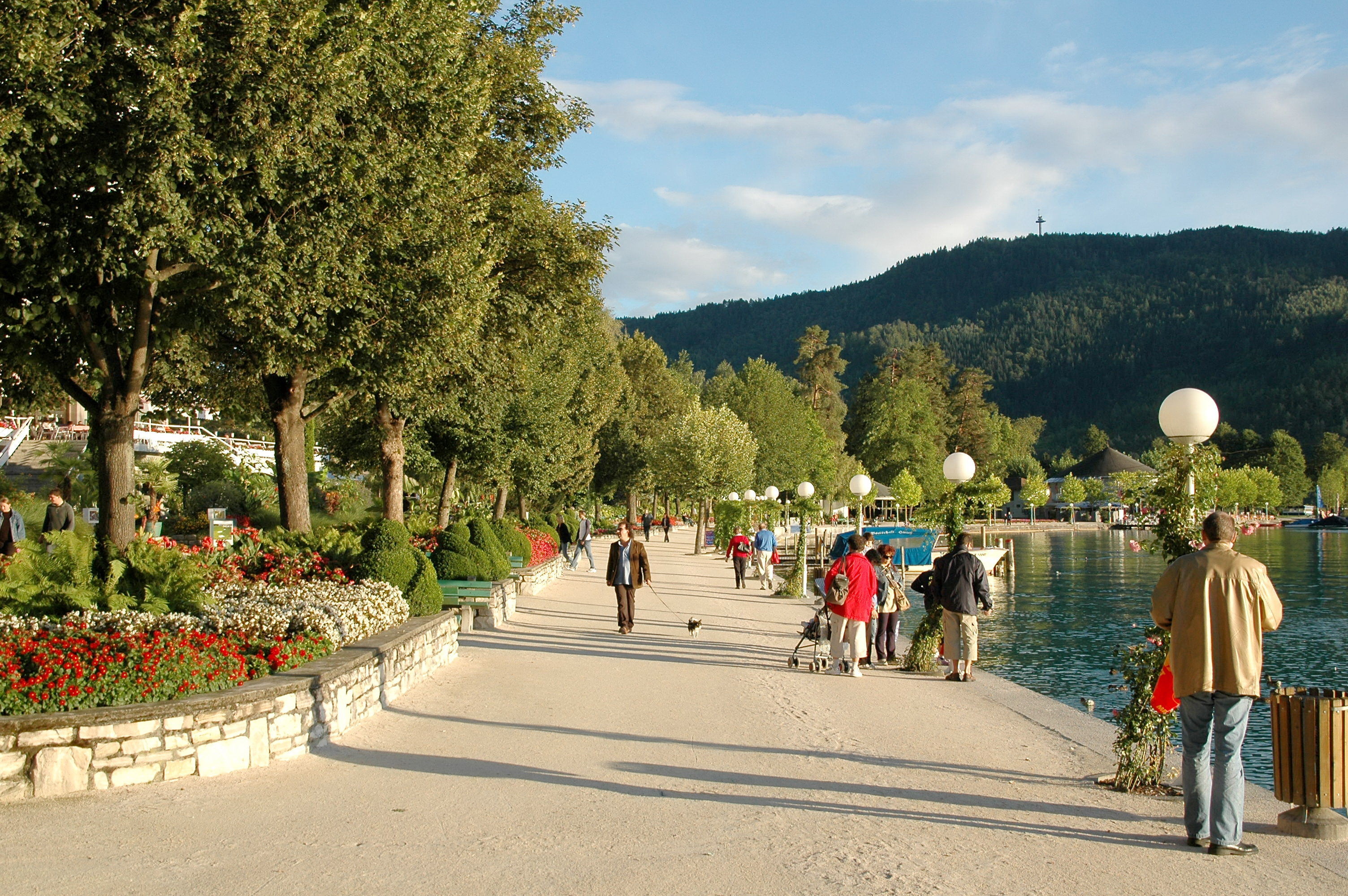 Johannes-Brahms-Promenade, municipality Pörtschach am Wörther See, district Klagenfurt Land, Carinthia, Austria, EU